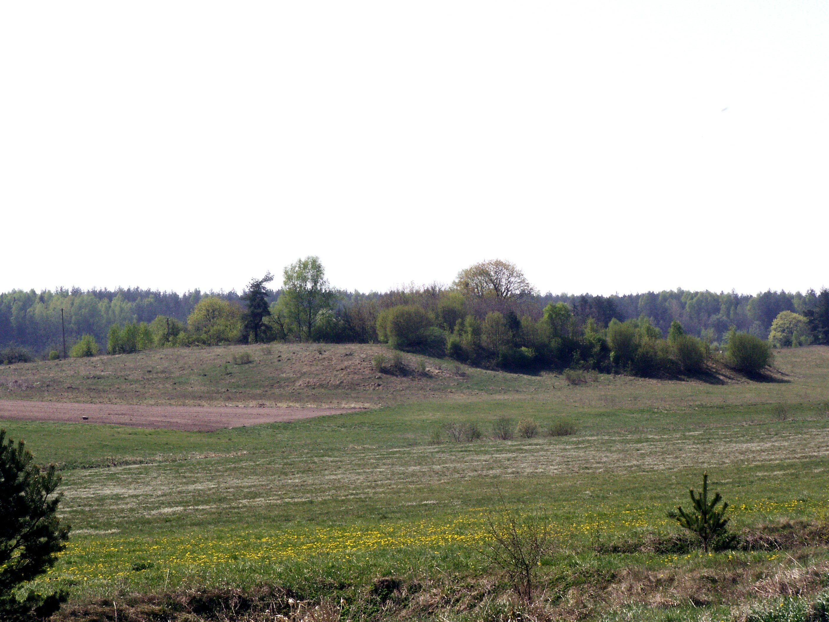 Kaniavėlė hillfort, Varėna district, Lithuania